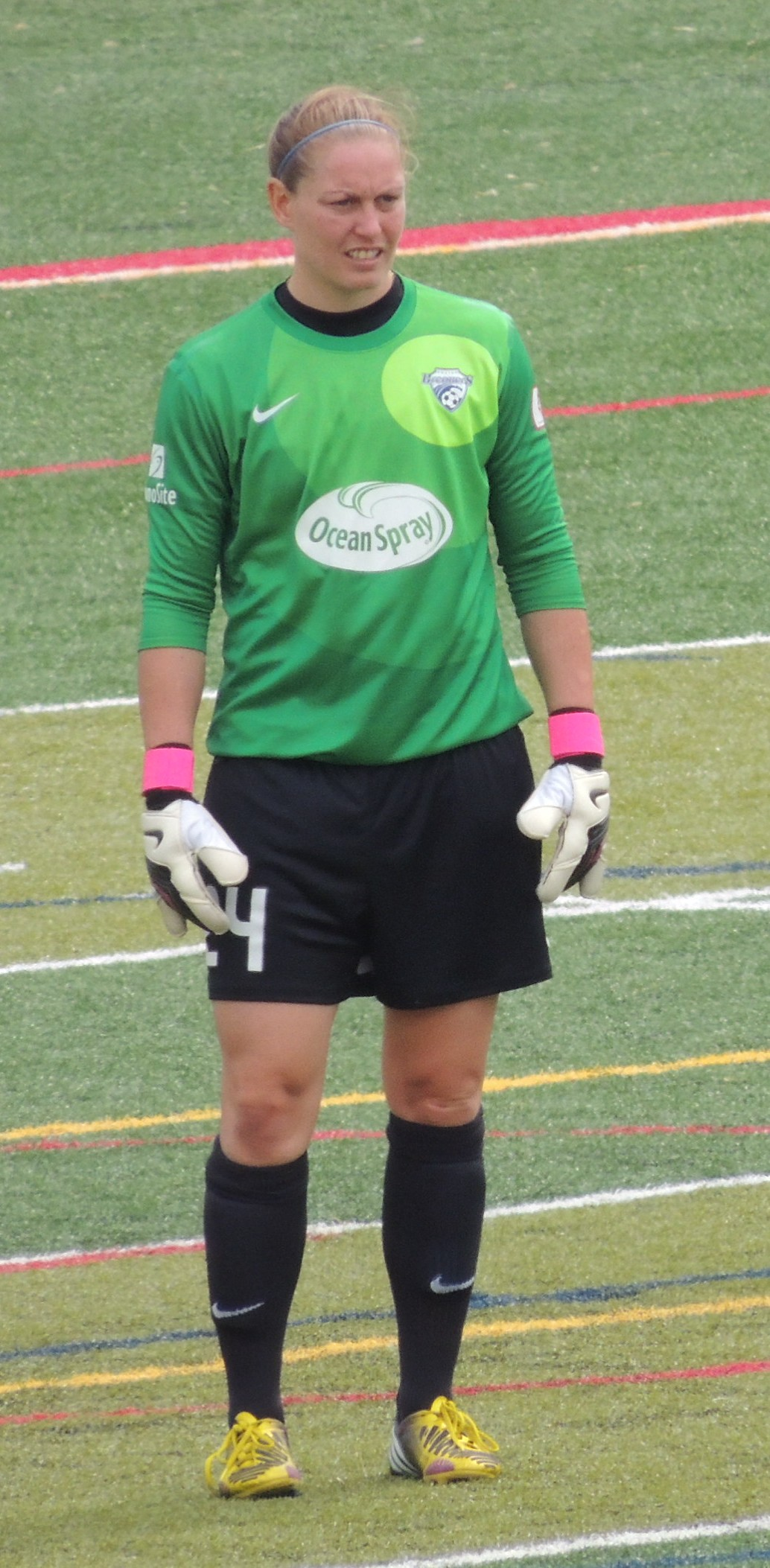 Ashley Philips, soccer player; 2013-06-09 Chicago Red Stars vs Boston Breakers